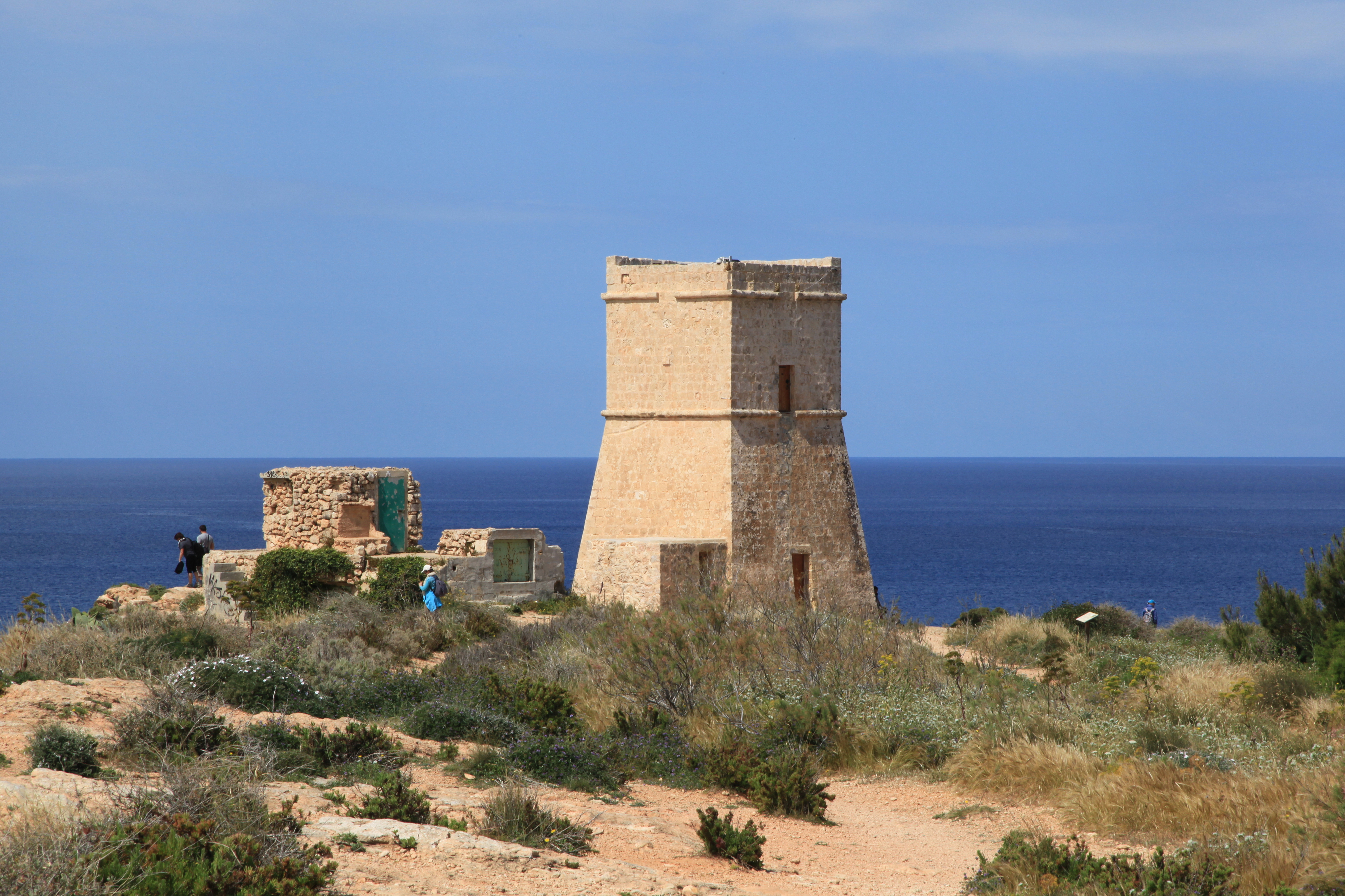 Għajn Tuffieħa Tower in the Għajn Tuffieħa nature reserve in Mġarr, Malta